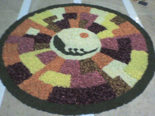 Onam Pookkalam